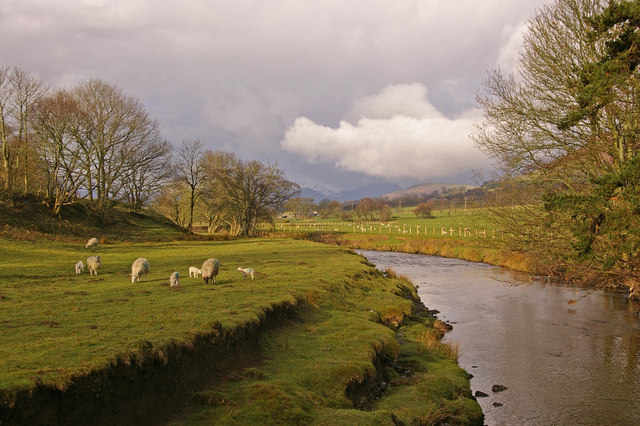 River Glenderamackin Looking downstream from Guardhouse Bridge.